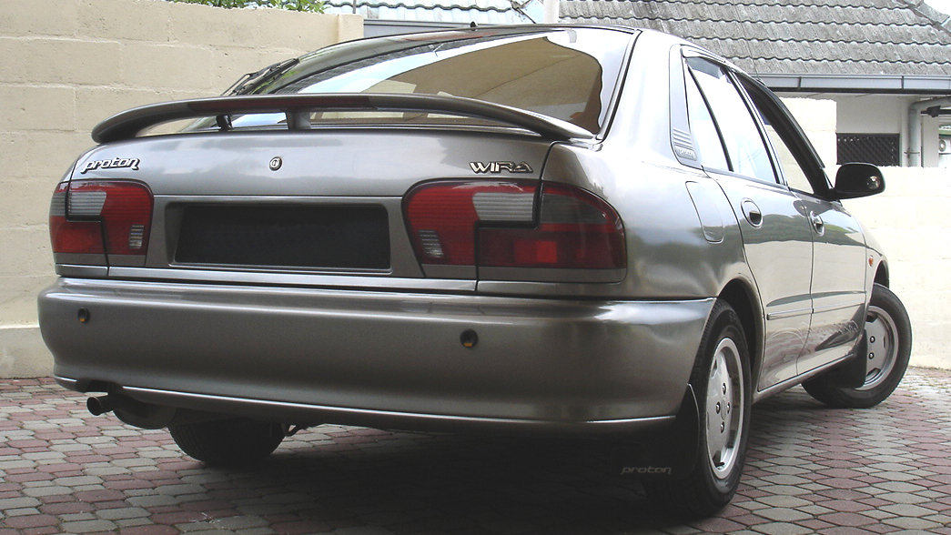 Proton Wira